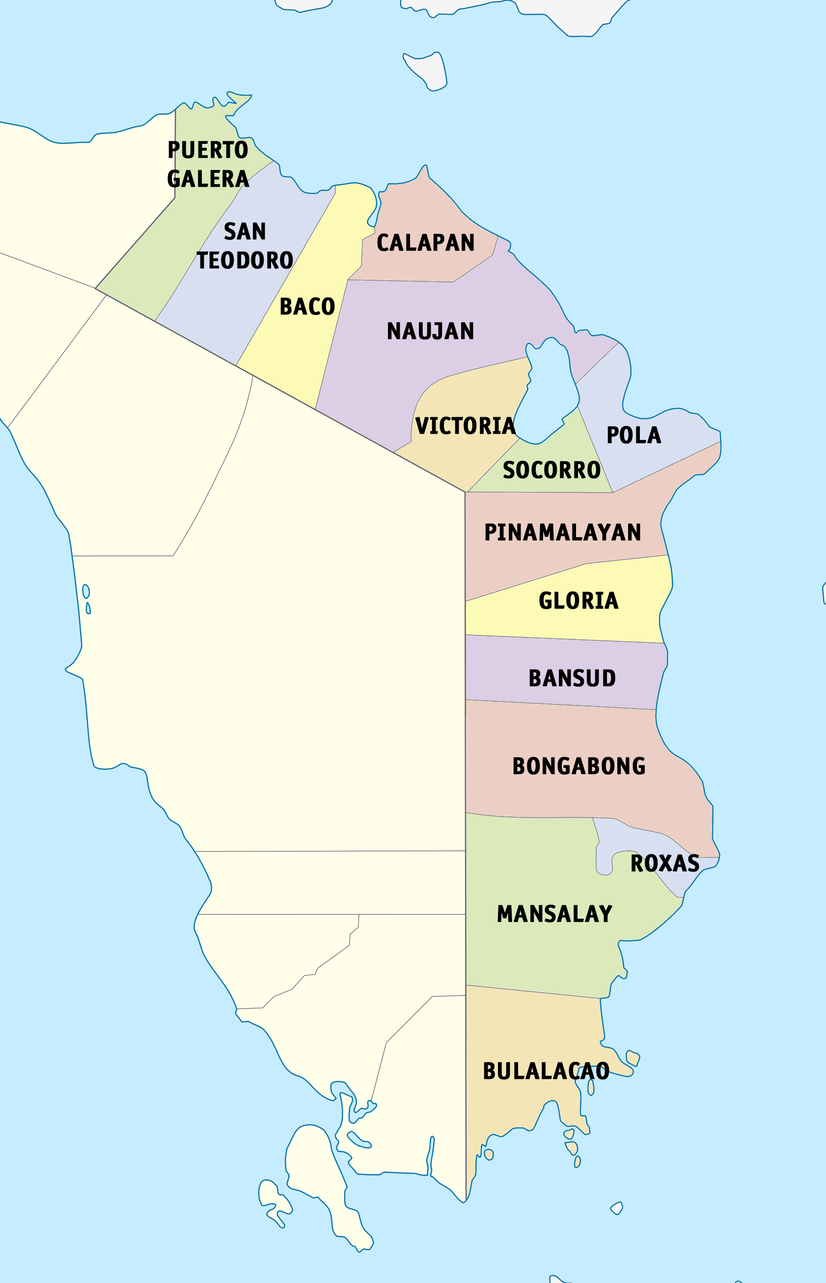 Political map of Oriental Mindoro Province — on eastern Mindoro island, the Philippines.